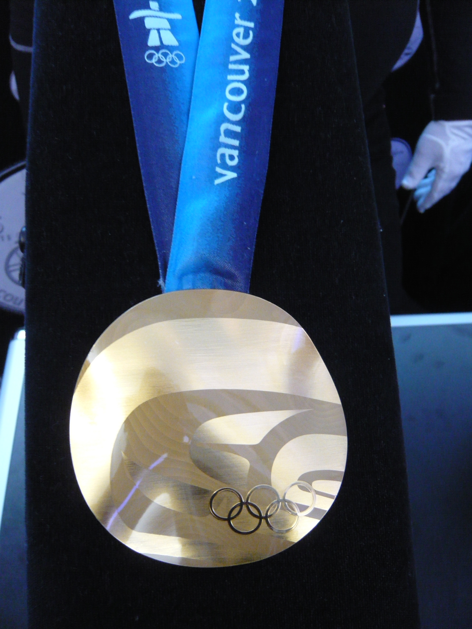 Gold Medal of Vancouver 2010